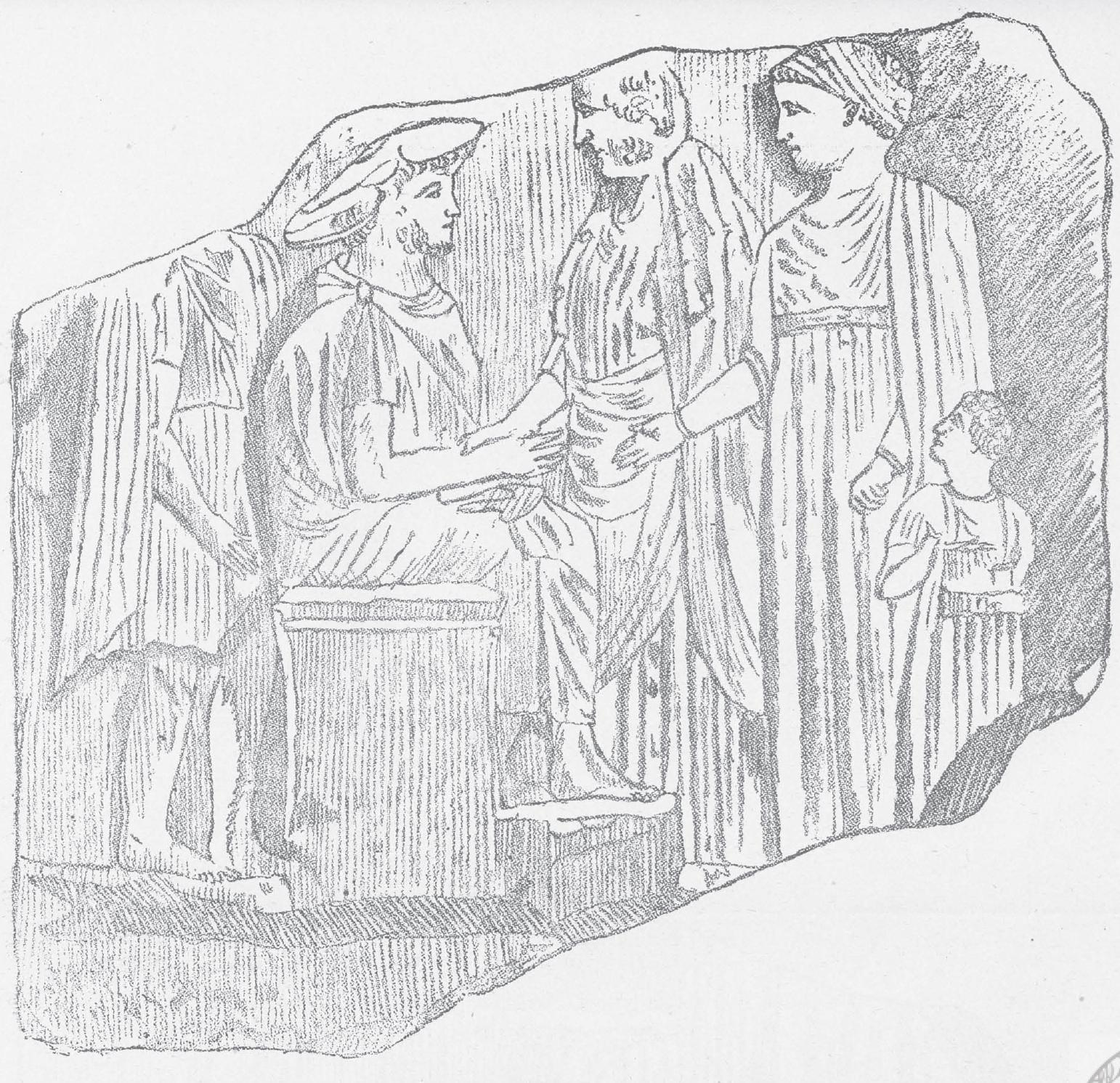 Tombstone found in Aiani, Greece